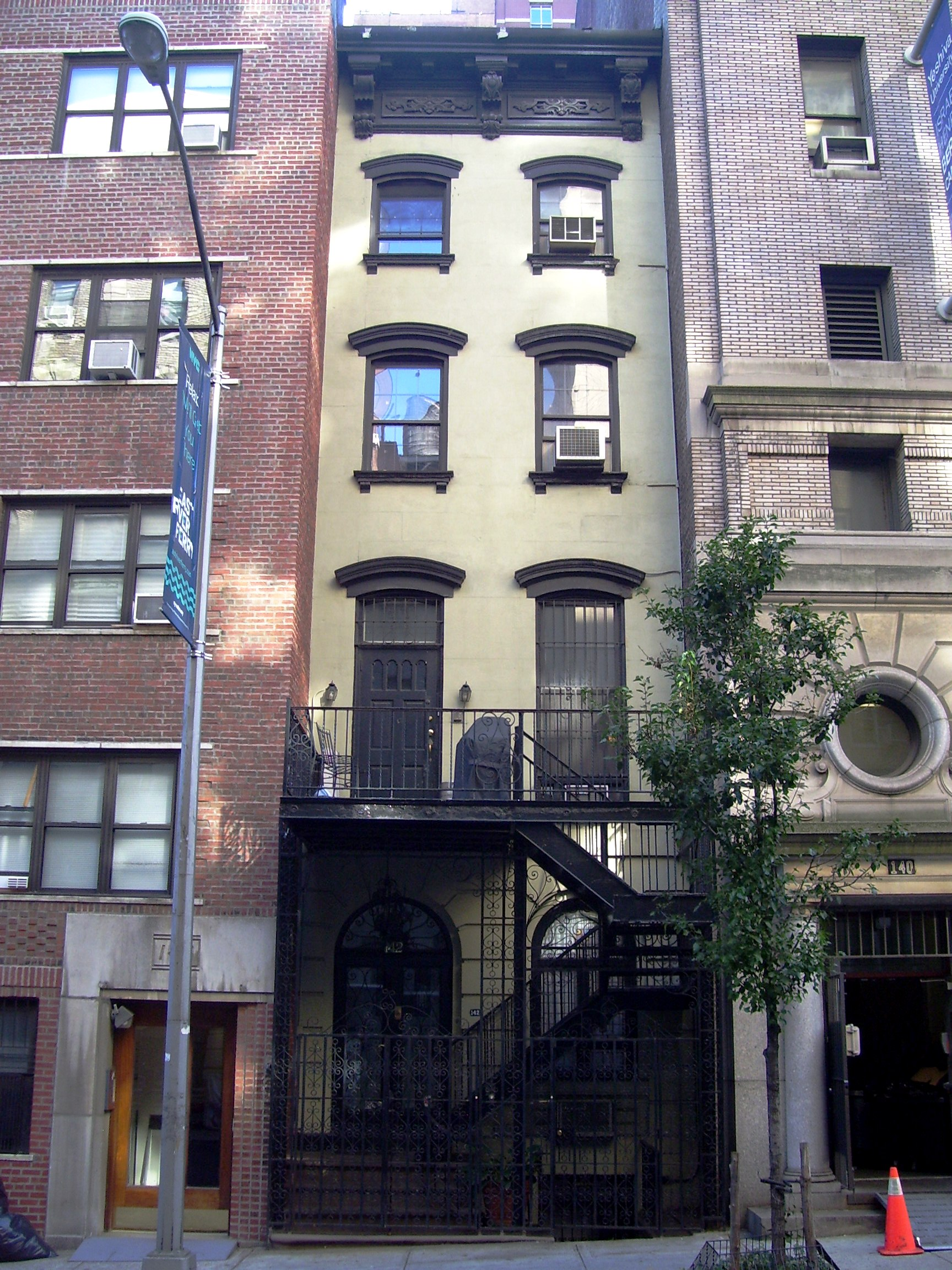 142 East 35th Street between Third and Lexington Avenues in the Murray Hill neighborhood of Manhattan, New York City, was built c. 1901. (Source: NYC GIS map)